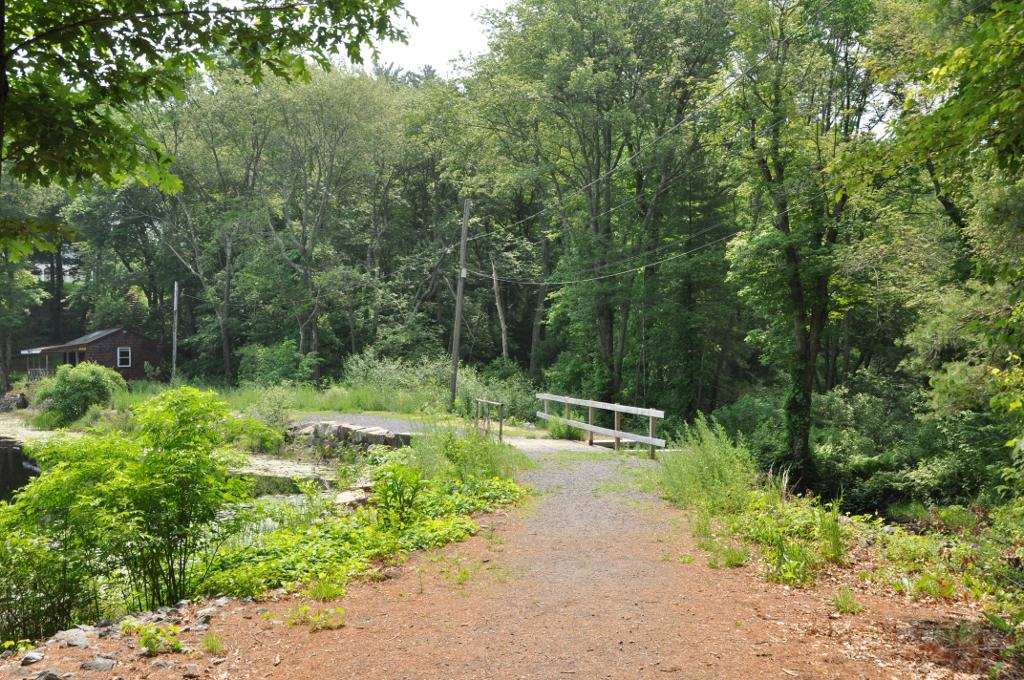 The dam at Gavin's Pond on the town line between Foxborough and Sharon, Massachusetts. This mostly 20th century dam is on the site of an earlier colonial dam that supplied power for the Stoughtonham Furnace, an early ironworks.